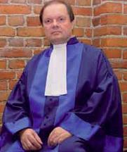 Justice of the International Criminal Court, Erkki Kourula